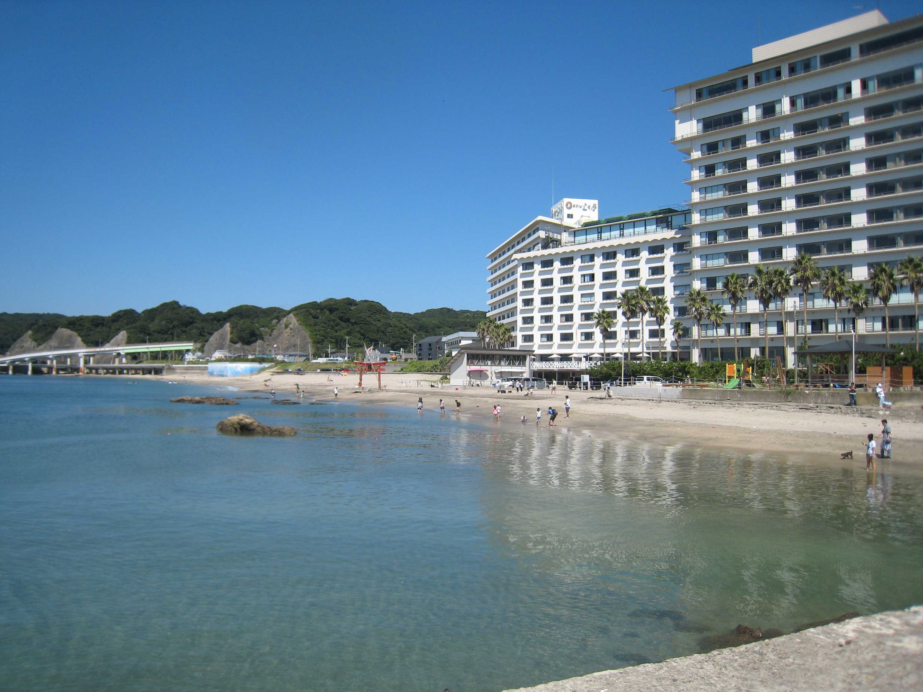 Katsuura Chuo Beach